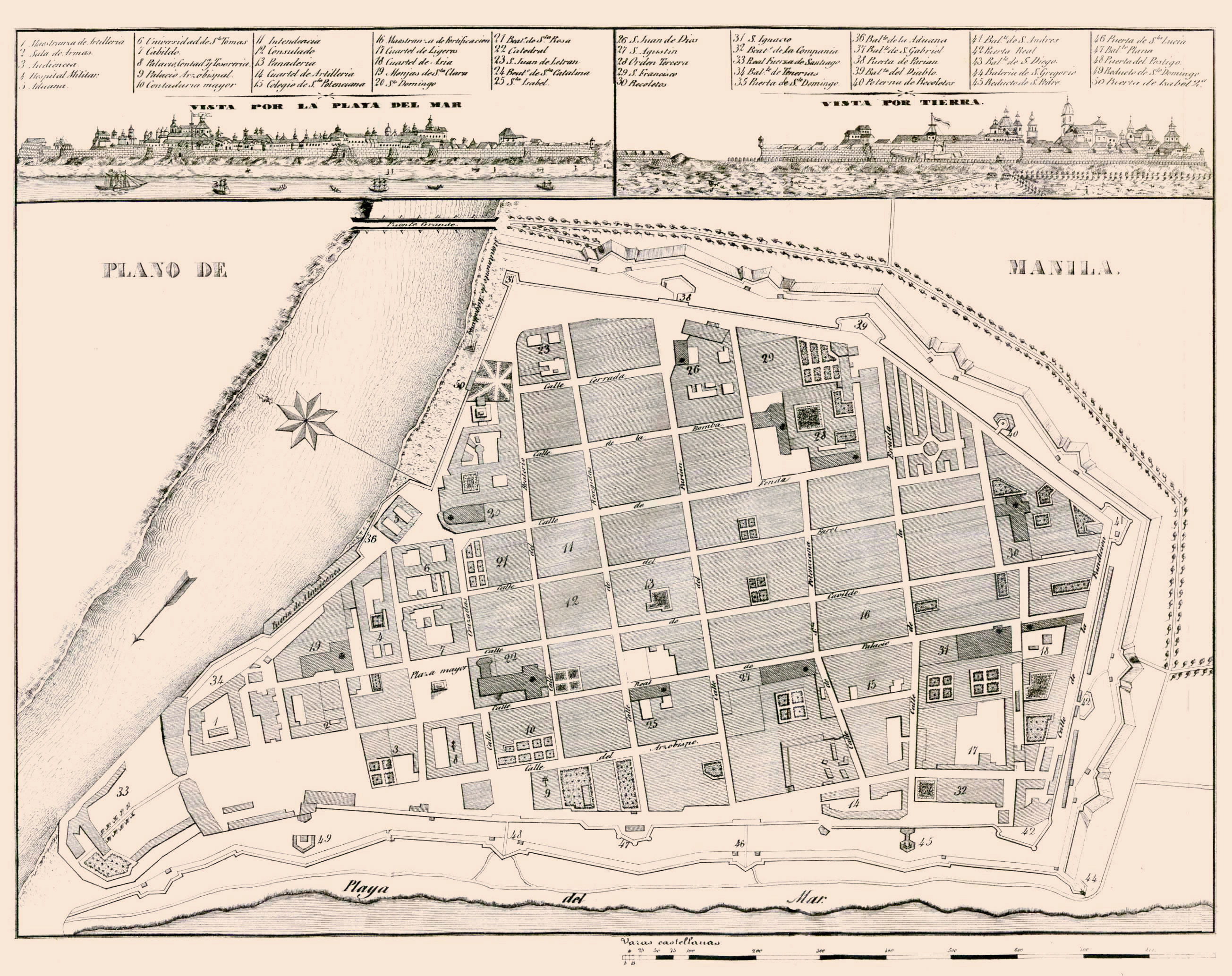 Map of Old Manila in 1851. From the collection of University of Texas in Austin Library. Repaired by User:Briarfallen.